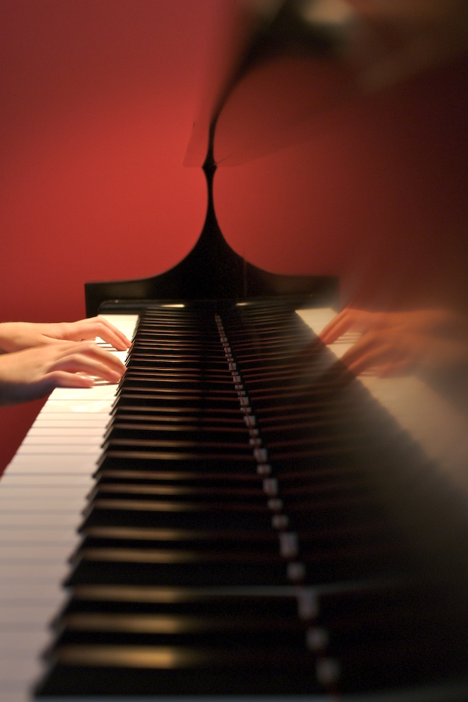 The keyboard of a Steinway[1][2] grand piano.